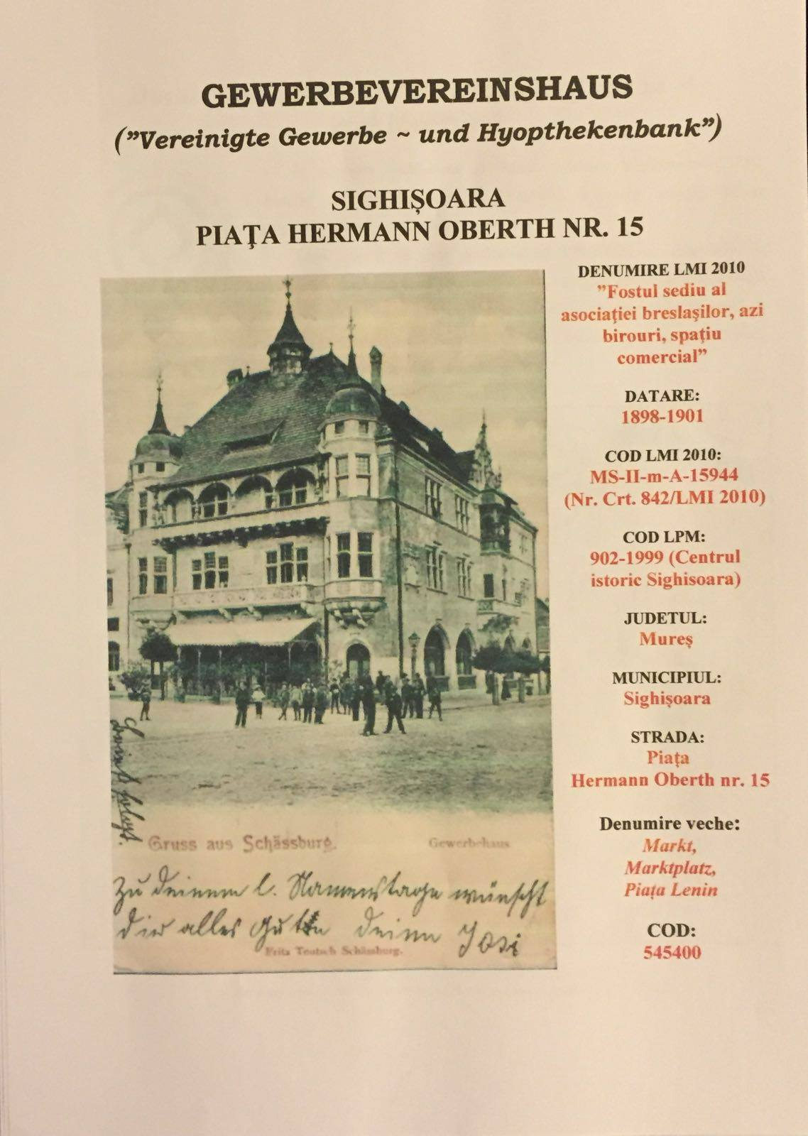 an old view on Casa Asociatiei Mestesuguresti which now has become a restaurant